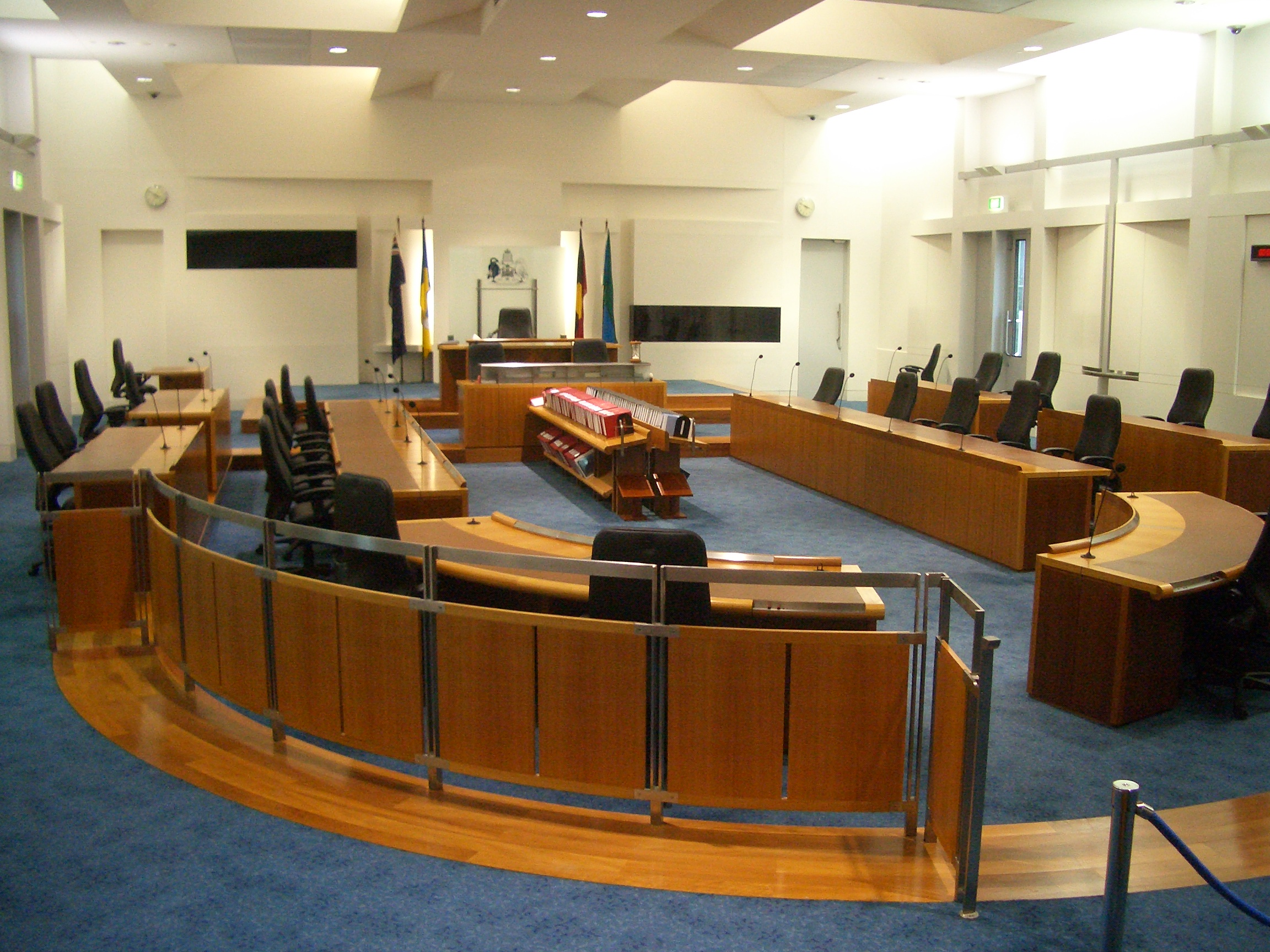 Chamber of the Australian Capital Territory Legislative Assembly, December 2007. By the far wall, from left to right, are the Australian flag, the flag of the Australian Capital Territory, the Australian Aboriginal flag and the Torres Strait Islander flag